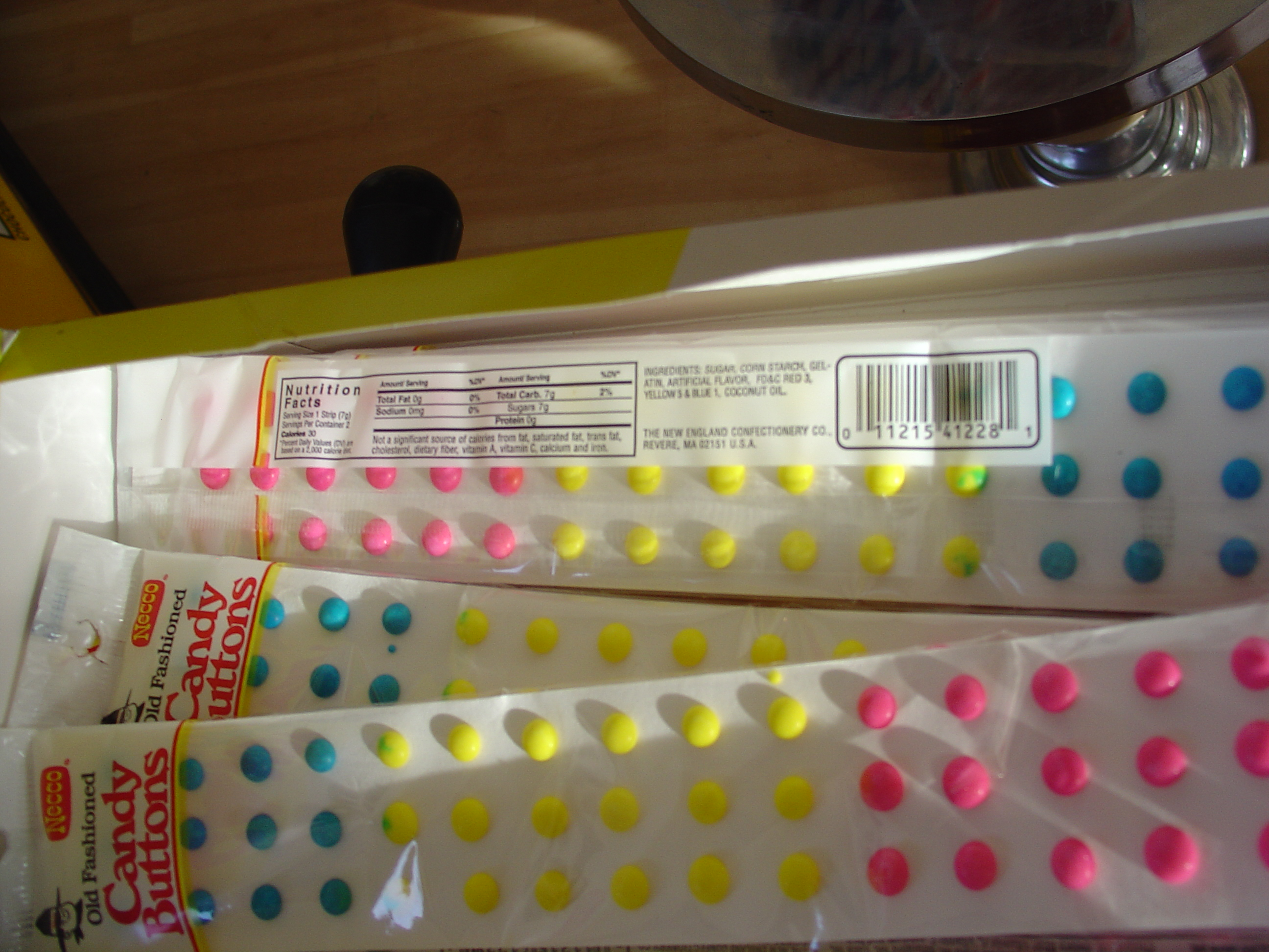 Candy Buttons candy from Necco.